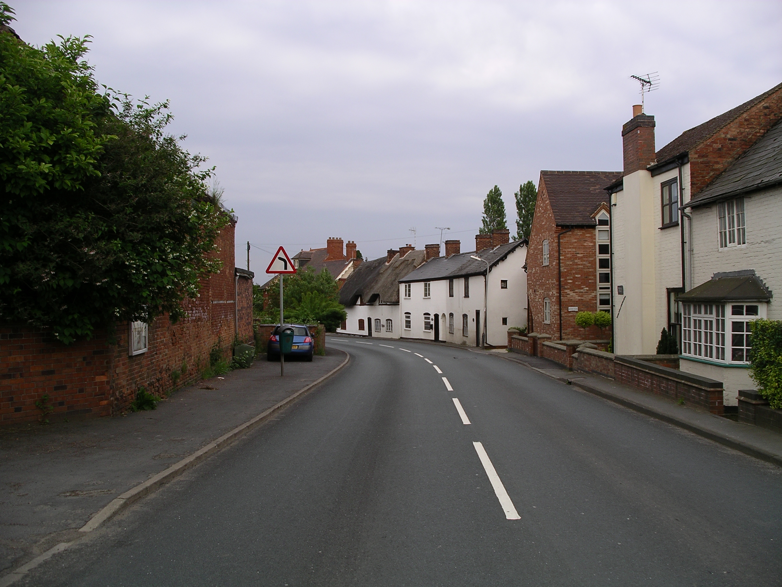 Ansty, Warwickshire, England. The main road looking north.